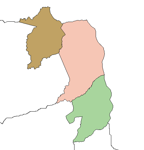 Map of the Amambay Department, Paraguay